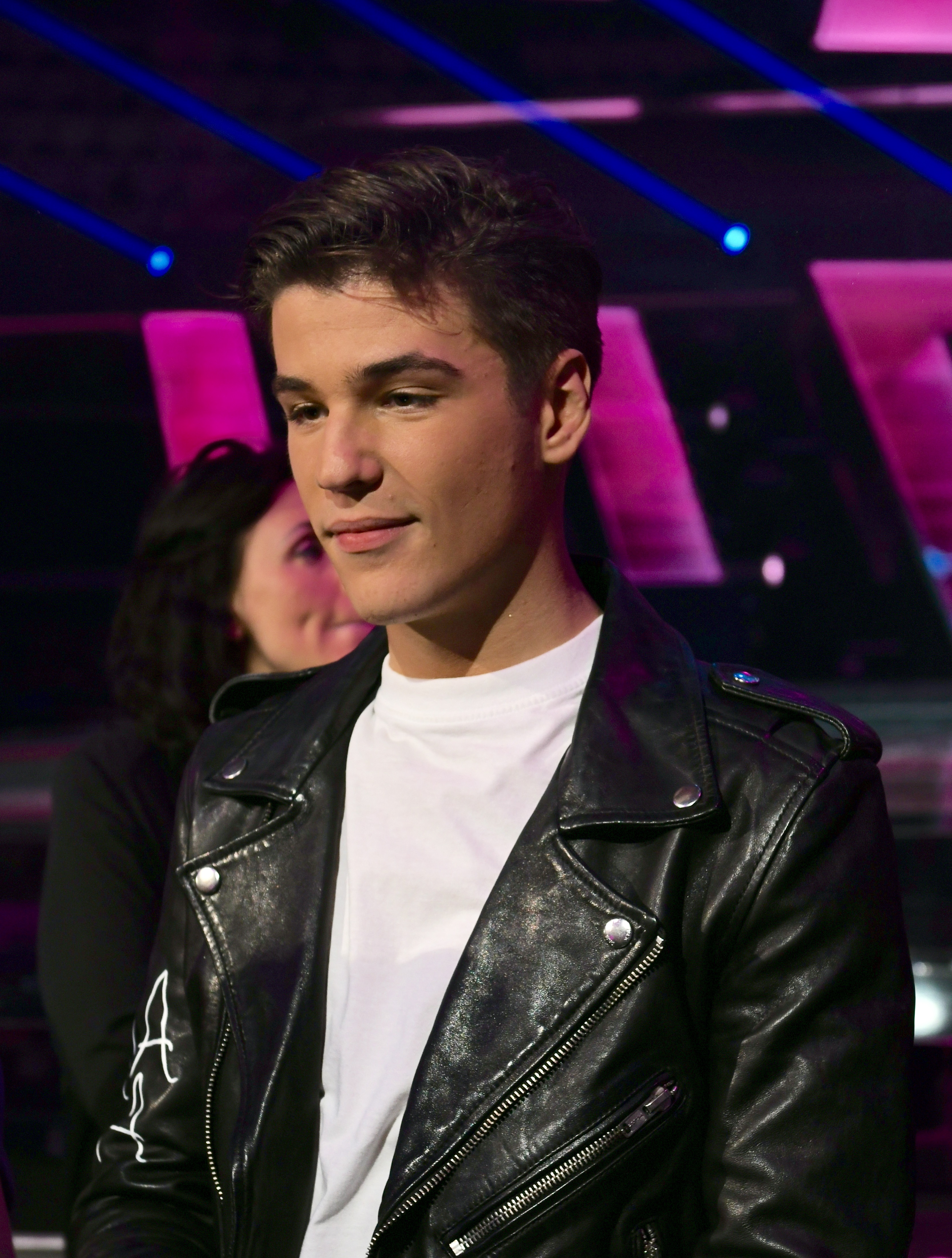 Anton Hagman @ Melodifestivalen 2017